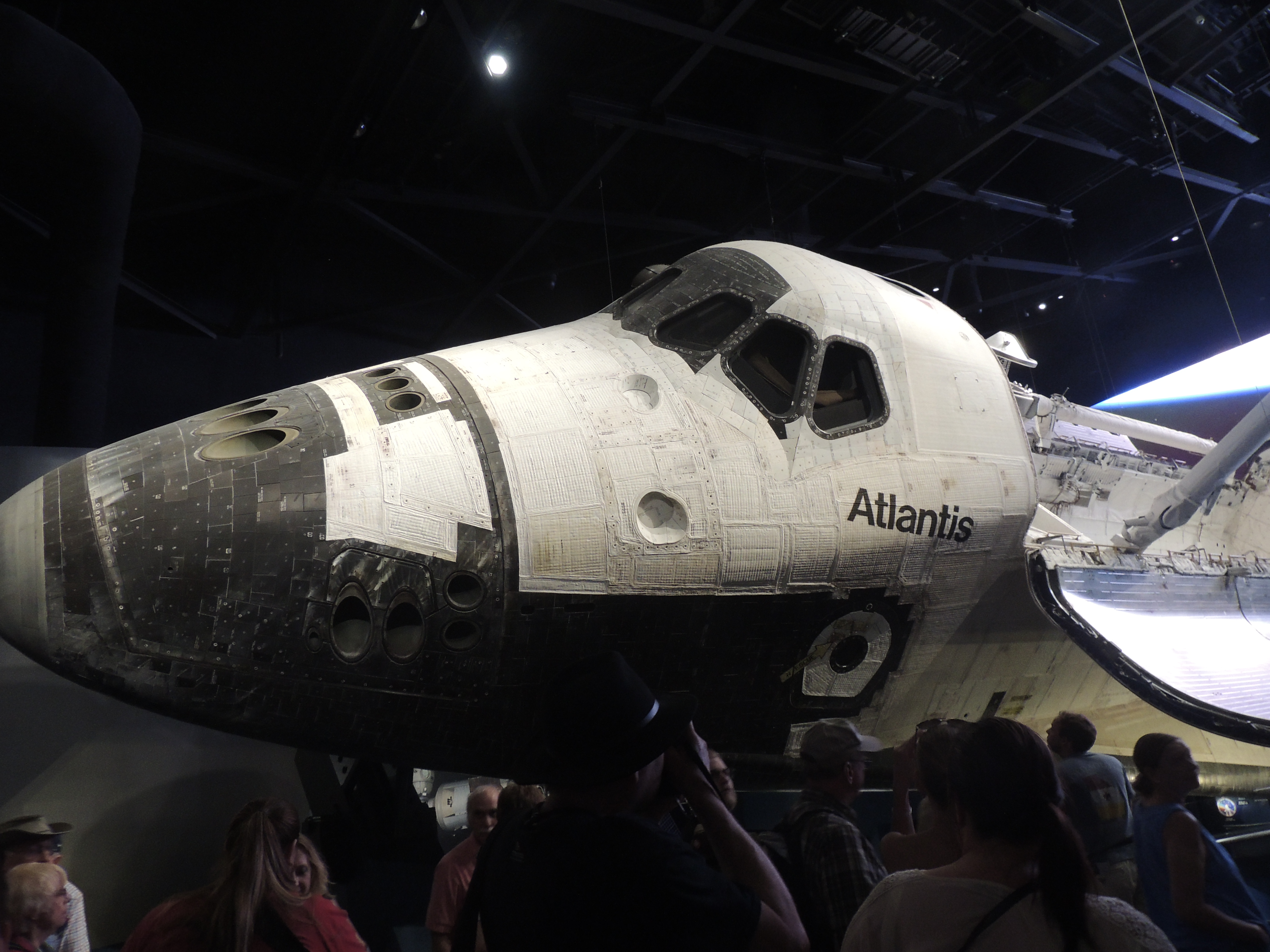 Space Shuttle Atlantis at the Kennedy Space Center